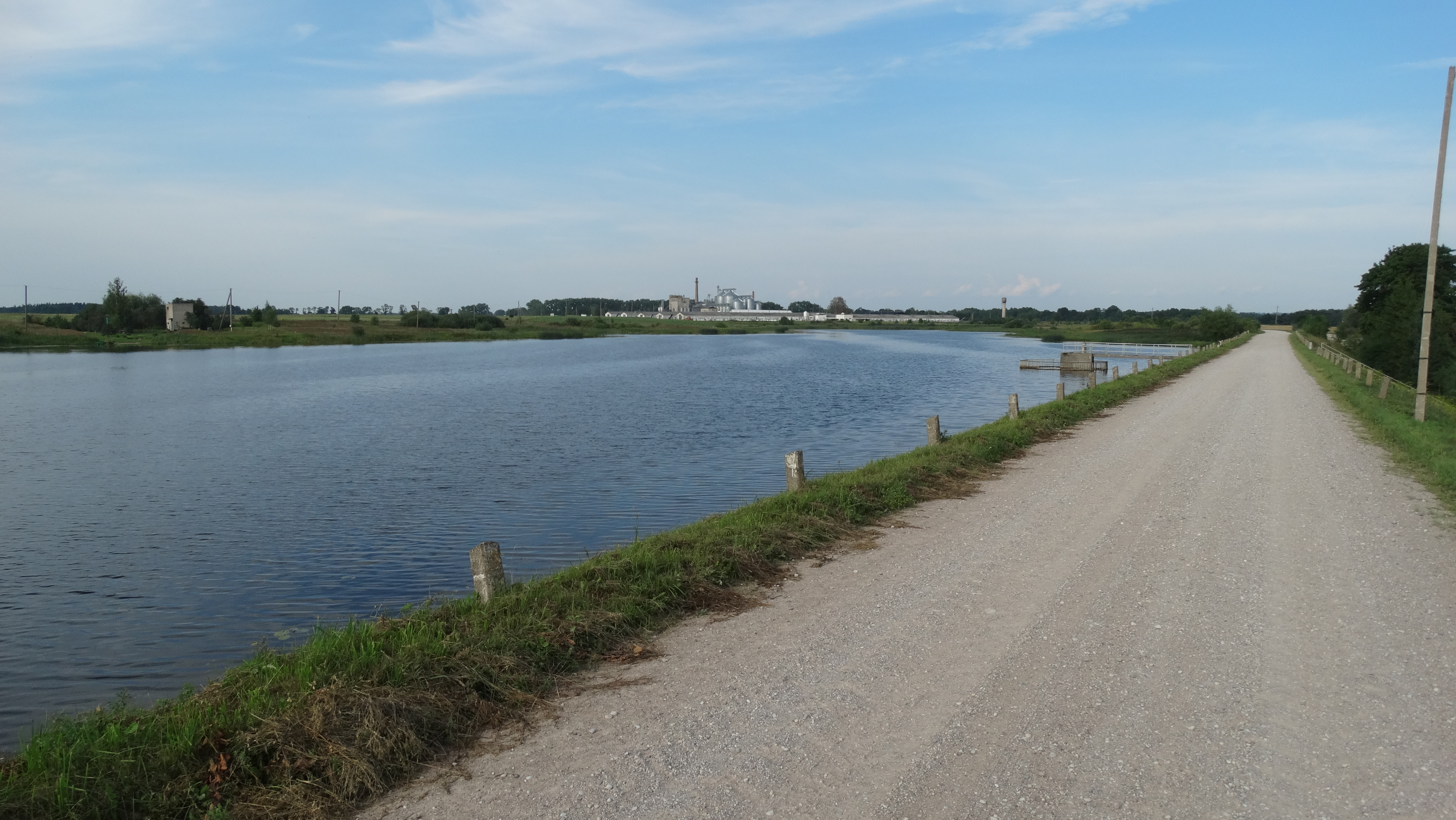 Dovydiškiai pond, Ukmergė District, Lithuania